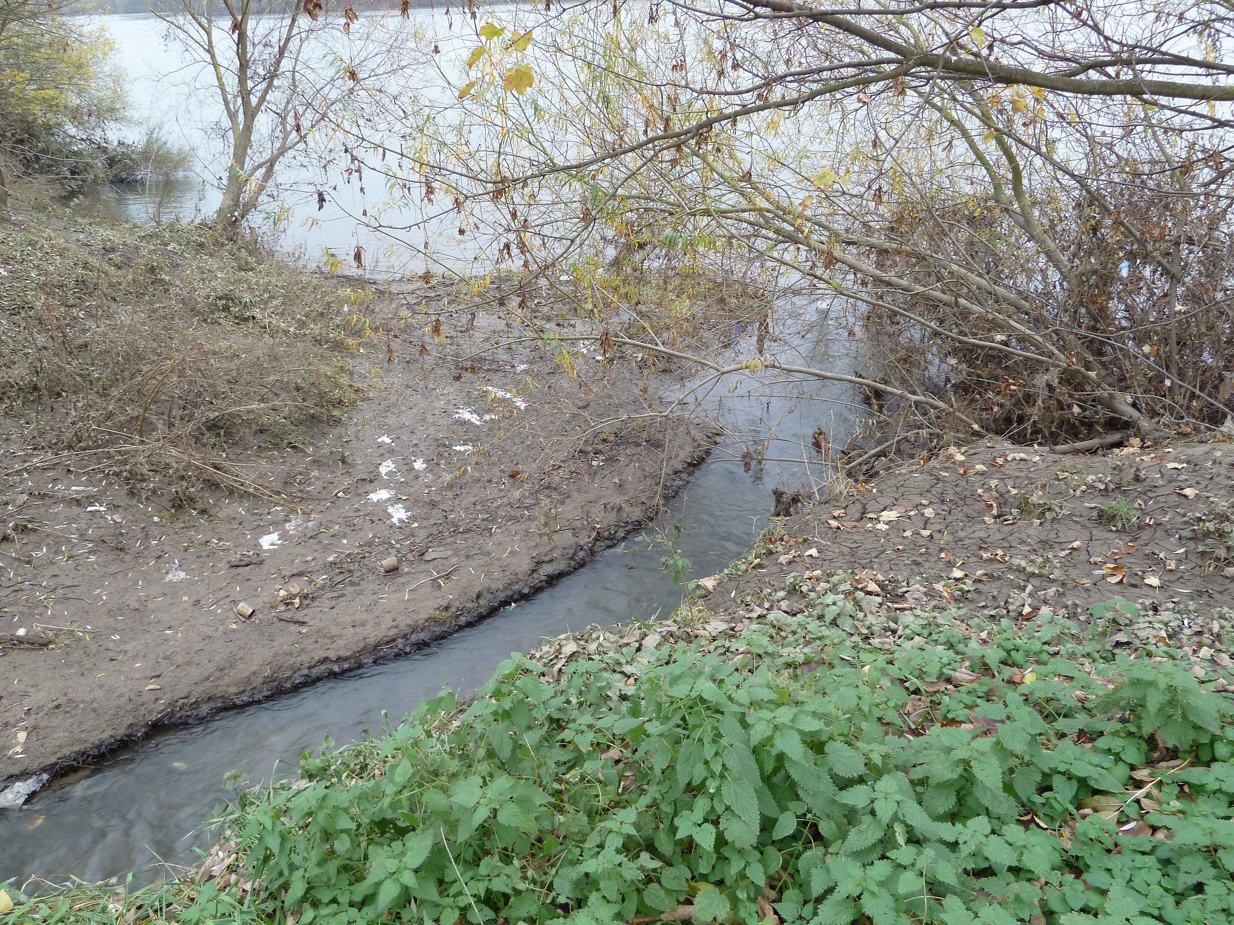 The rivier Voer ends in the Meuse, Eijsden, Limburg, the Netherlands